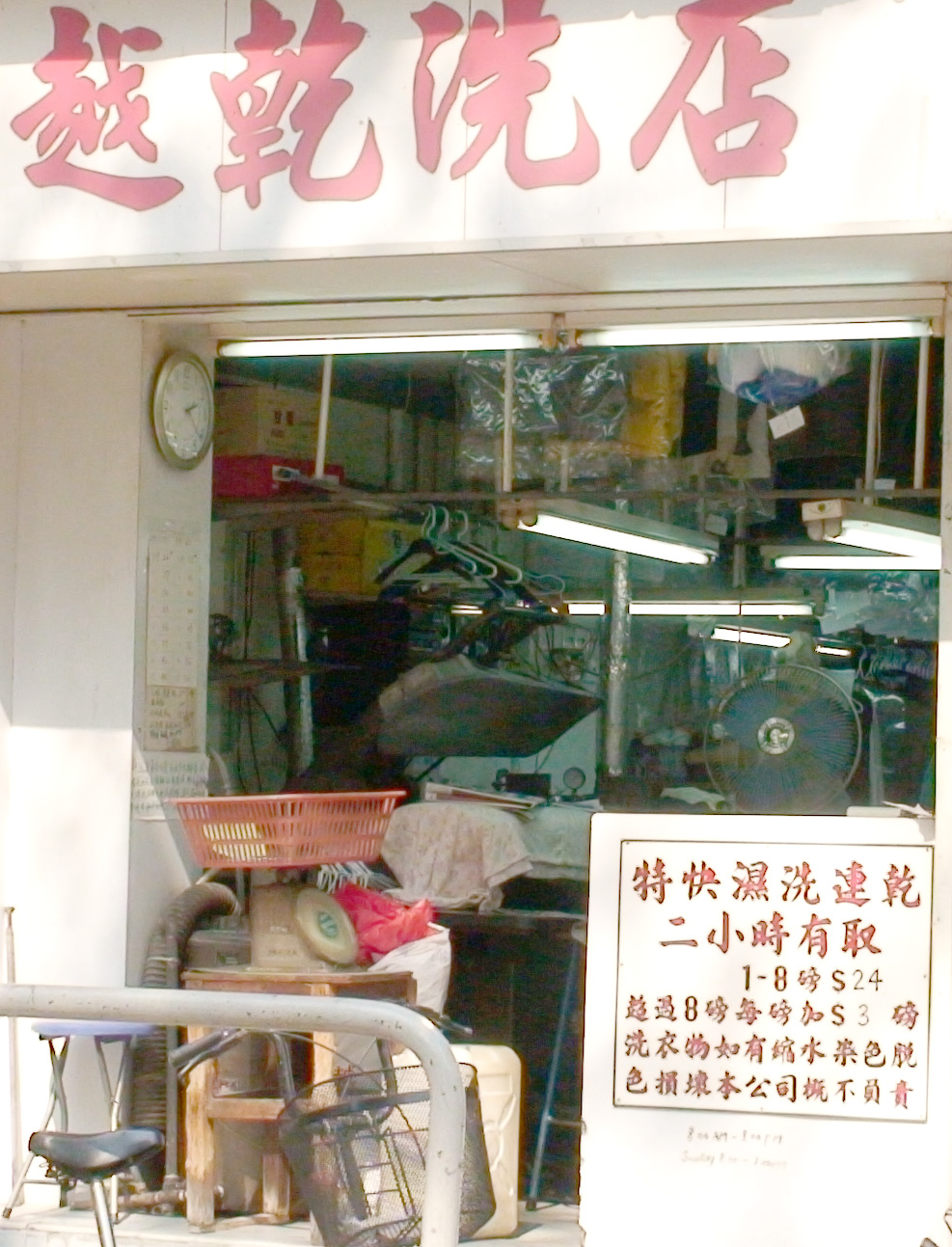 A local version of laundry service (洗衣鋪) in Yuen Long , Hong Kong